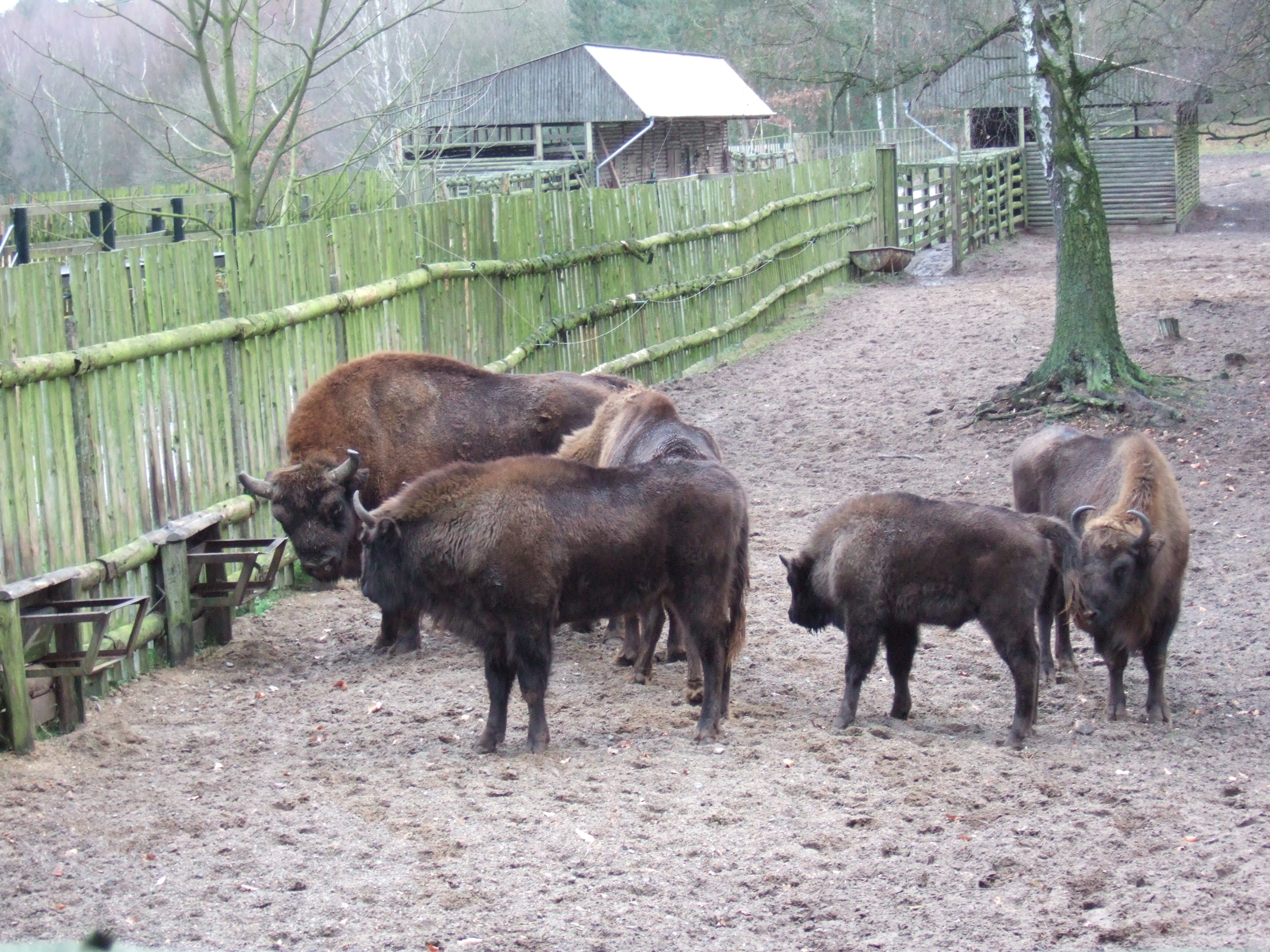 Wisent